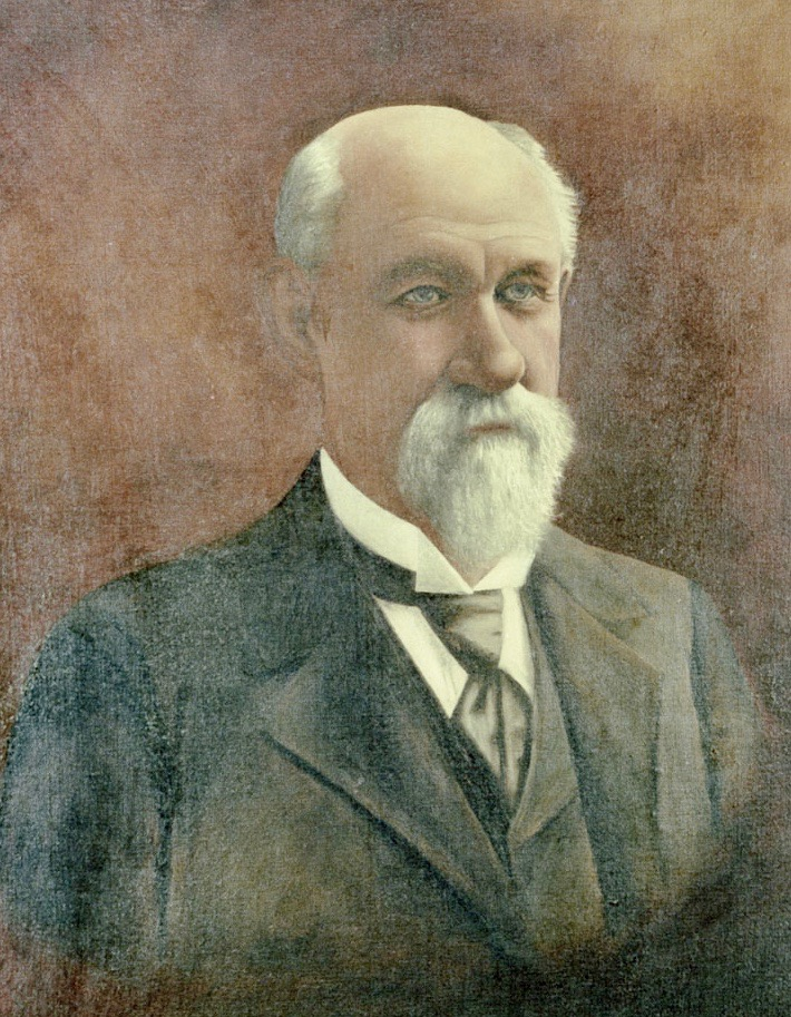 Thomas Jordan Jarvis, 1879 - 1885. Also served as Lt. Governor 1877-1879. From the General Negative Collection, State Archives of North Carolina, Raleigh, NC.